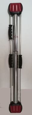 A bullworker in the 2010s, with grips.